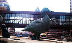 photograph of 4-foot bronze statue of "Gertie the Duck", located on the Wisconsin Avenue Bridge in Milwaukee, Wisconsin.